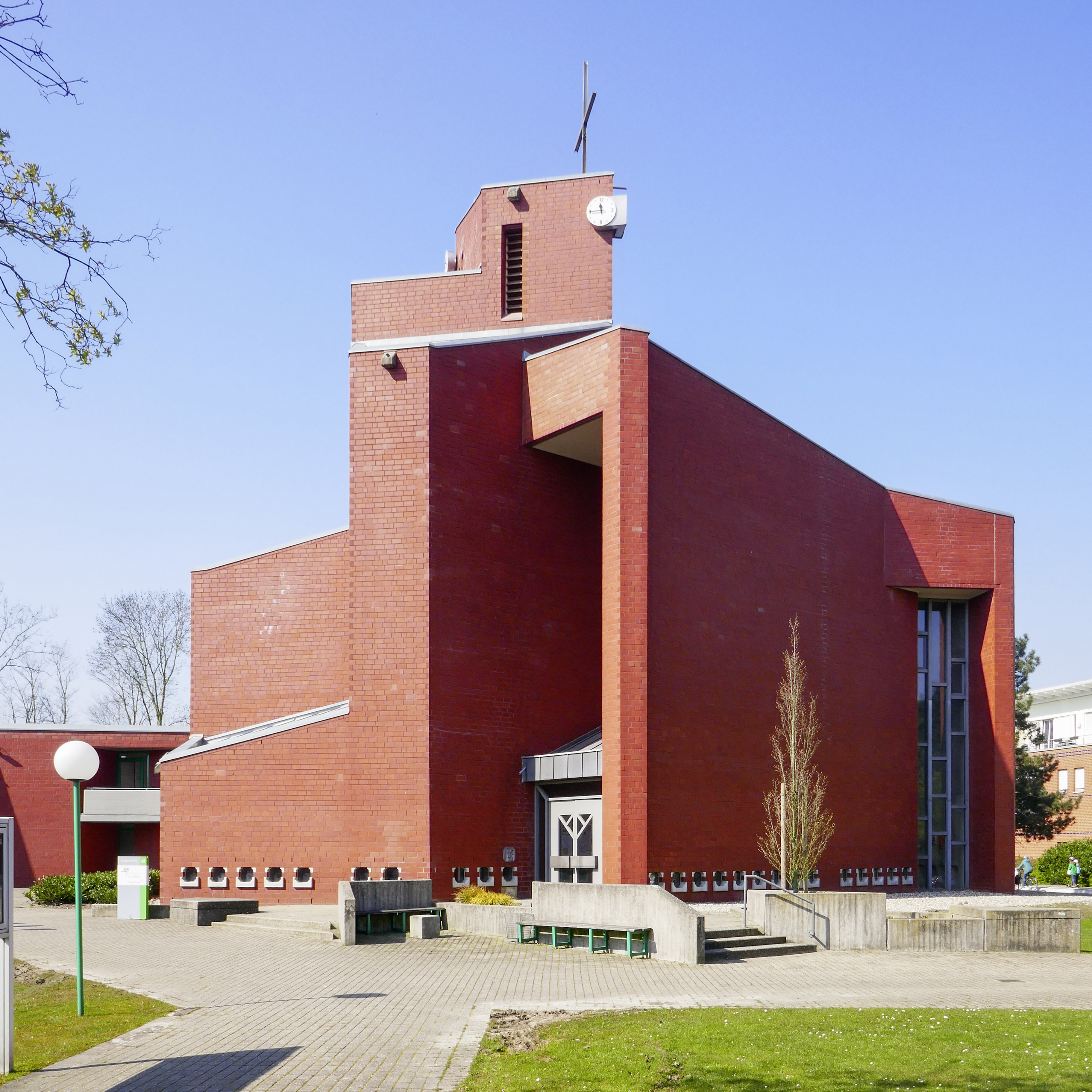 St. Anna Münster